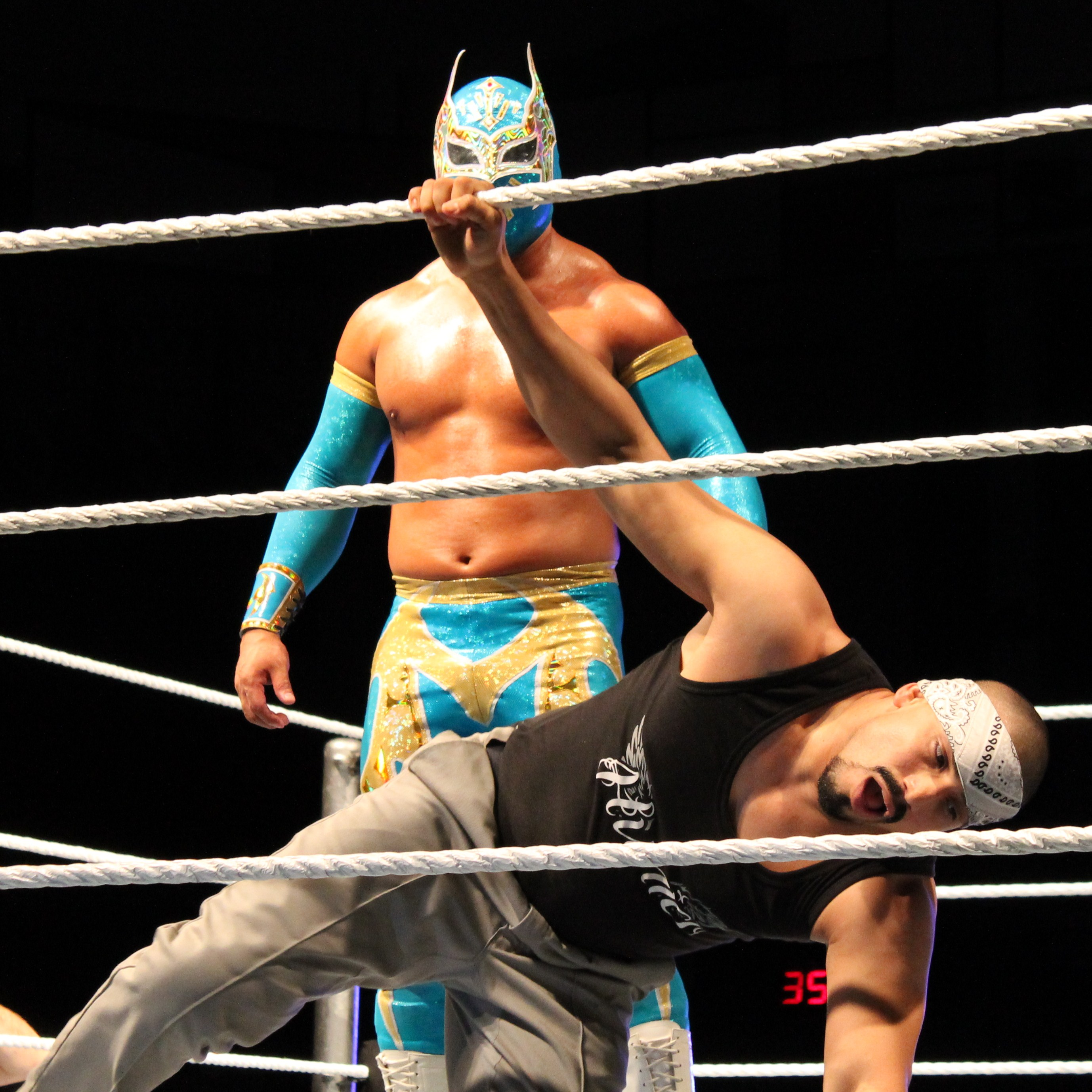 The original Sin Cara wrestled Hunico (front) in a WWE house show in May 2012.